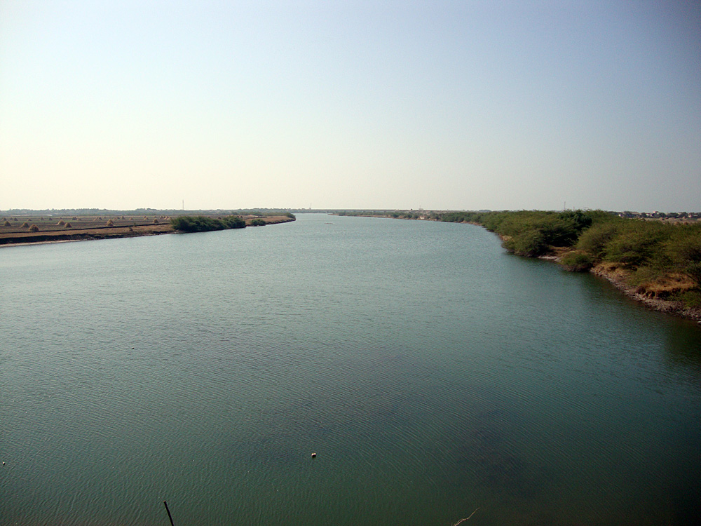 ભાદર નદી, સમૂદ્રમાં મળે છે ત્યાં, જૂના ભાદર પુલ પરથી.